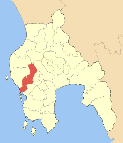 Locator map of Nestoros municipality (Δήμος Νέστορος) at Messinia perfecture, Greece.